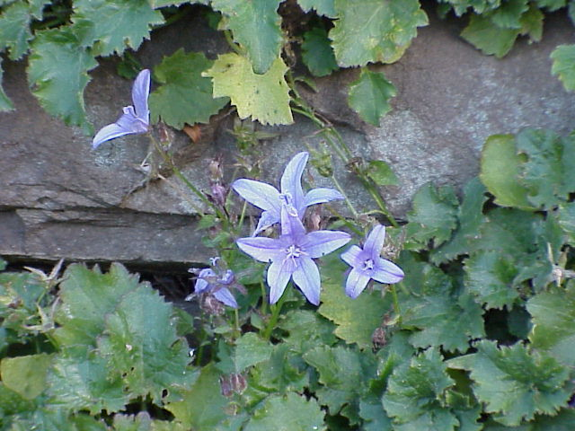 Species: Campanula poscharskyana (file name misleading because of wrong ID by original author) Family: Campanulaceae Image No. 4